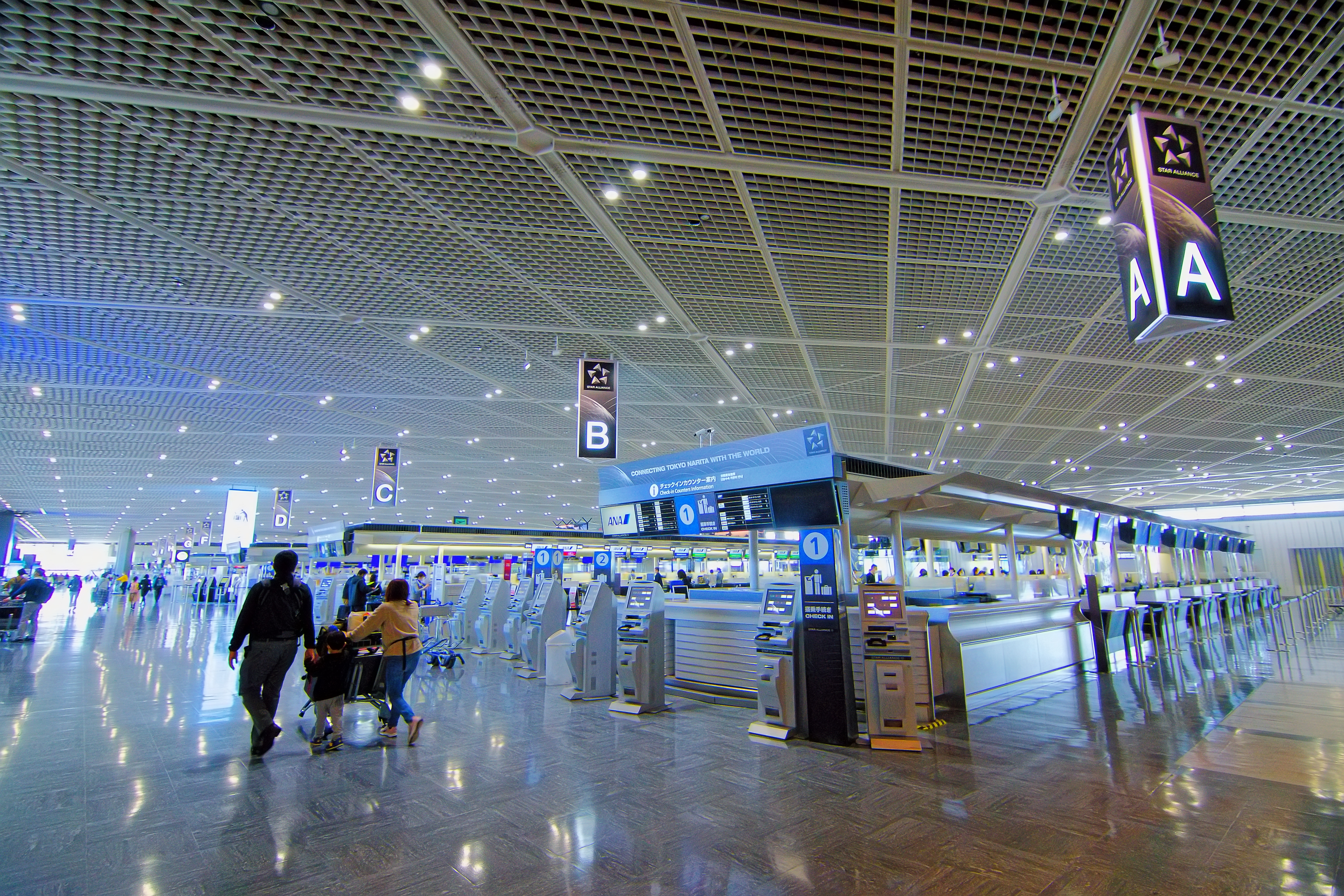 Terminal 1 South Wing Departure Lobby of Tokyo Narita Airport be used by Star Alliance.